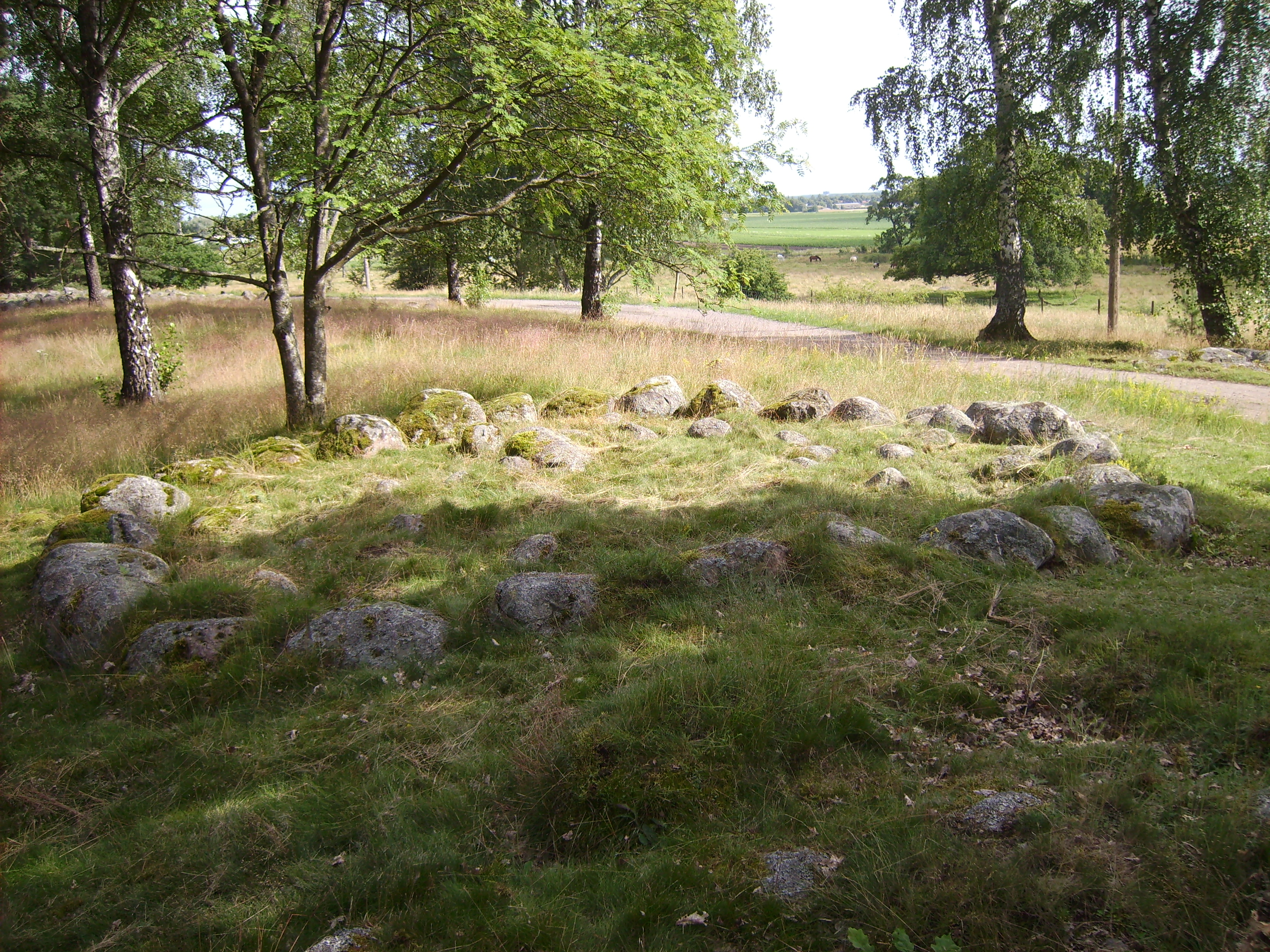 In Ringstad outside Norrköping, on the ester which divides the plains between Lake Glan and the sea, there is an area about 400 meters long on which some 170 graves and house foundations are to be seen. The area was partly excavated in the 1920s by the Swedish archaeologist Arthur Nordén (1891-1965). The finds indicate that the burial ground was used from centuries before the birth of Christ to the late Iron Age. Some of houses were built on the burial ground and date from the Late Iron Age to the Middles Ages. See also Ringstaholm.